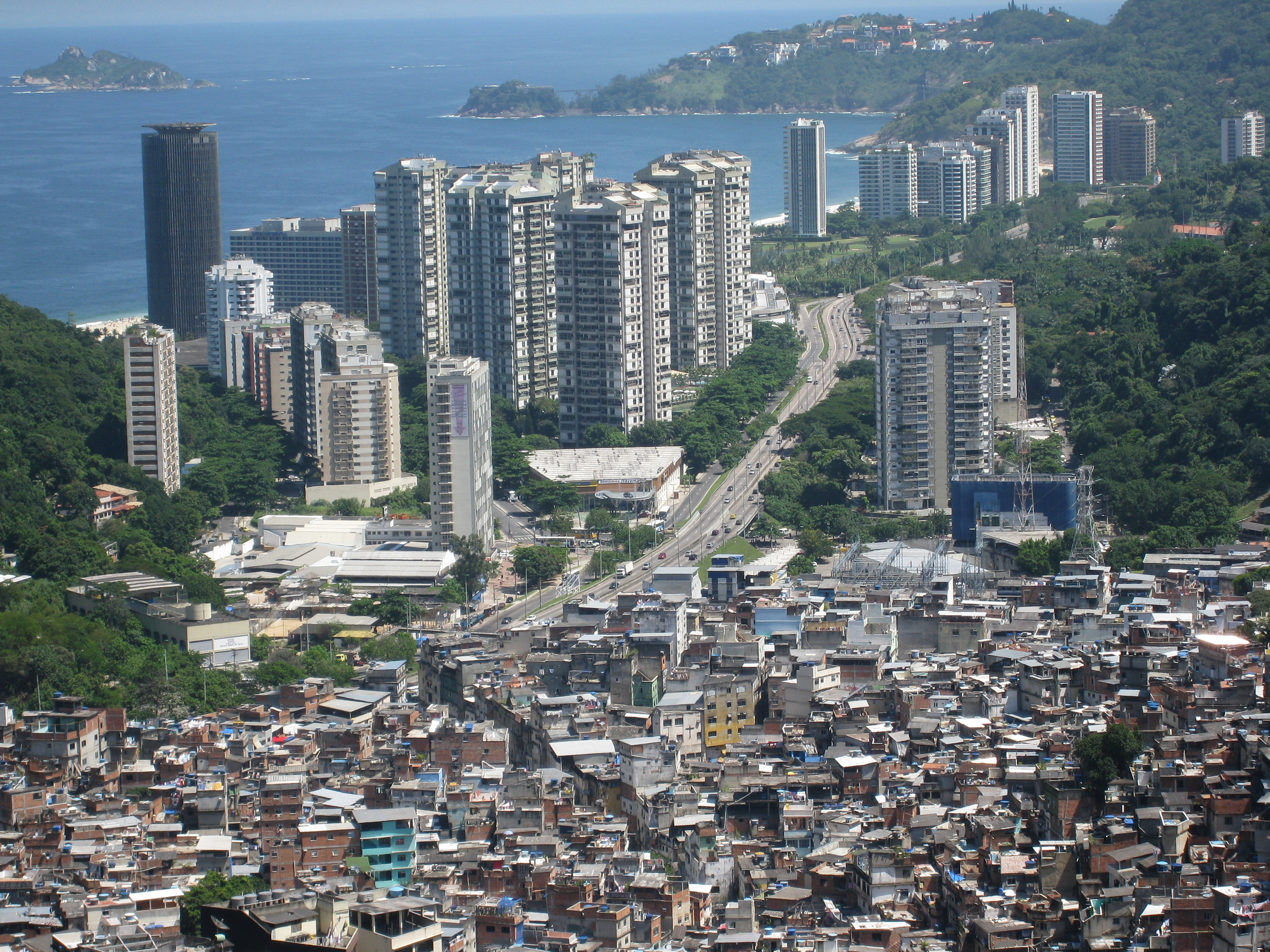 This is one of the largest shantytowns in South America with over 200,000 inhabitants. There are many such slums along side modern high rise buildings, in cities of Brazil. Those who live in these shanty towns prefer its prime location next to the city centre, as they can earn a living being close to the city.